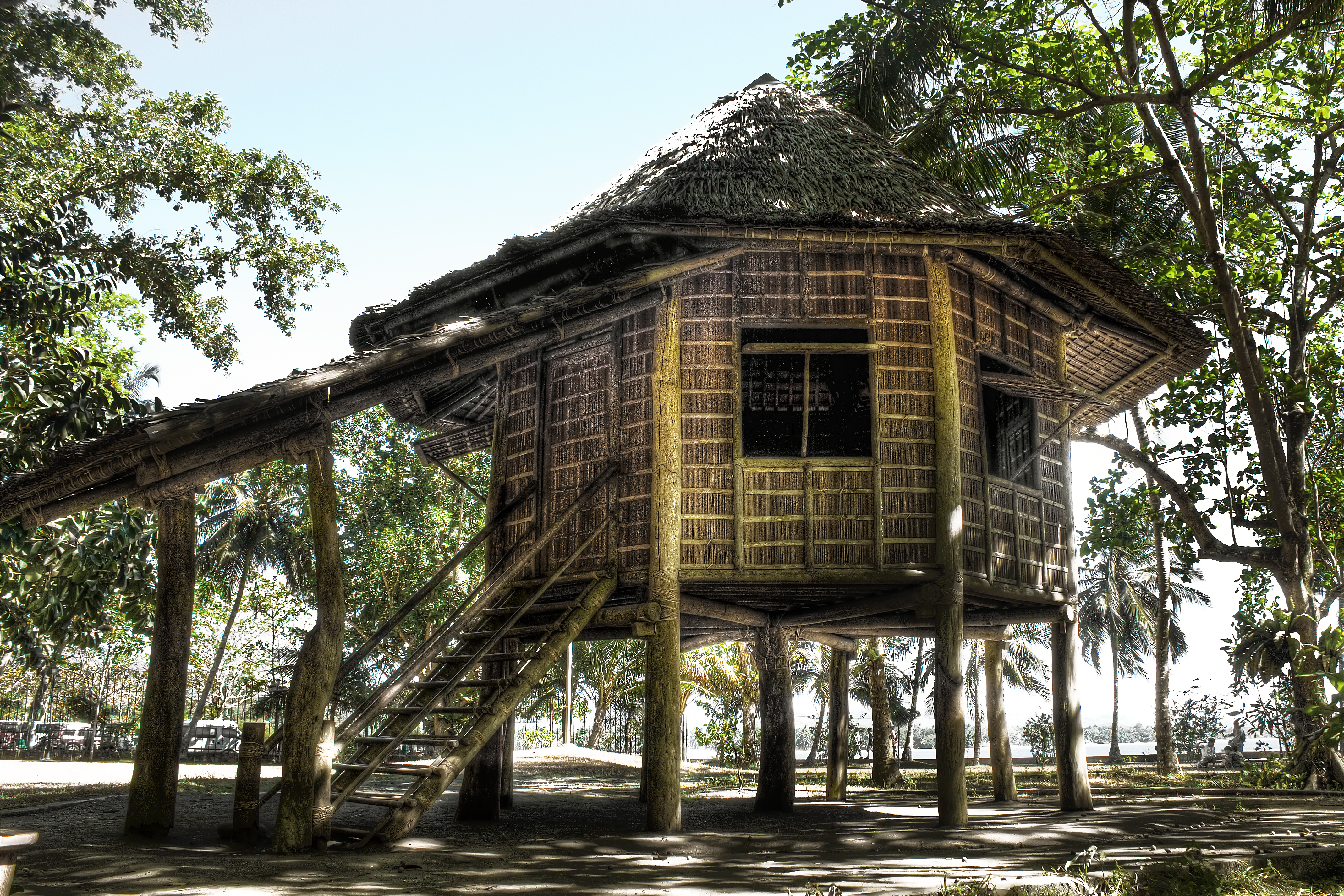 Rizal Shrine, Dapitan, Philippines